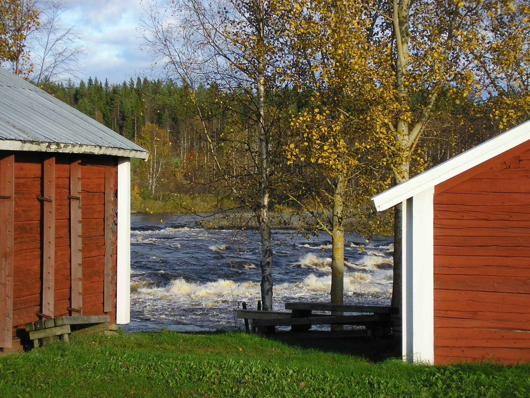 Tornevalley